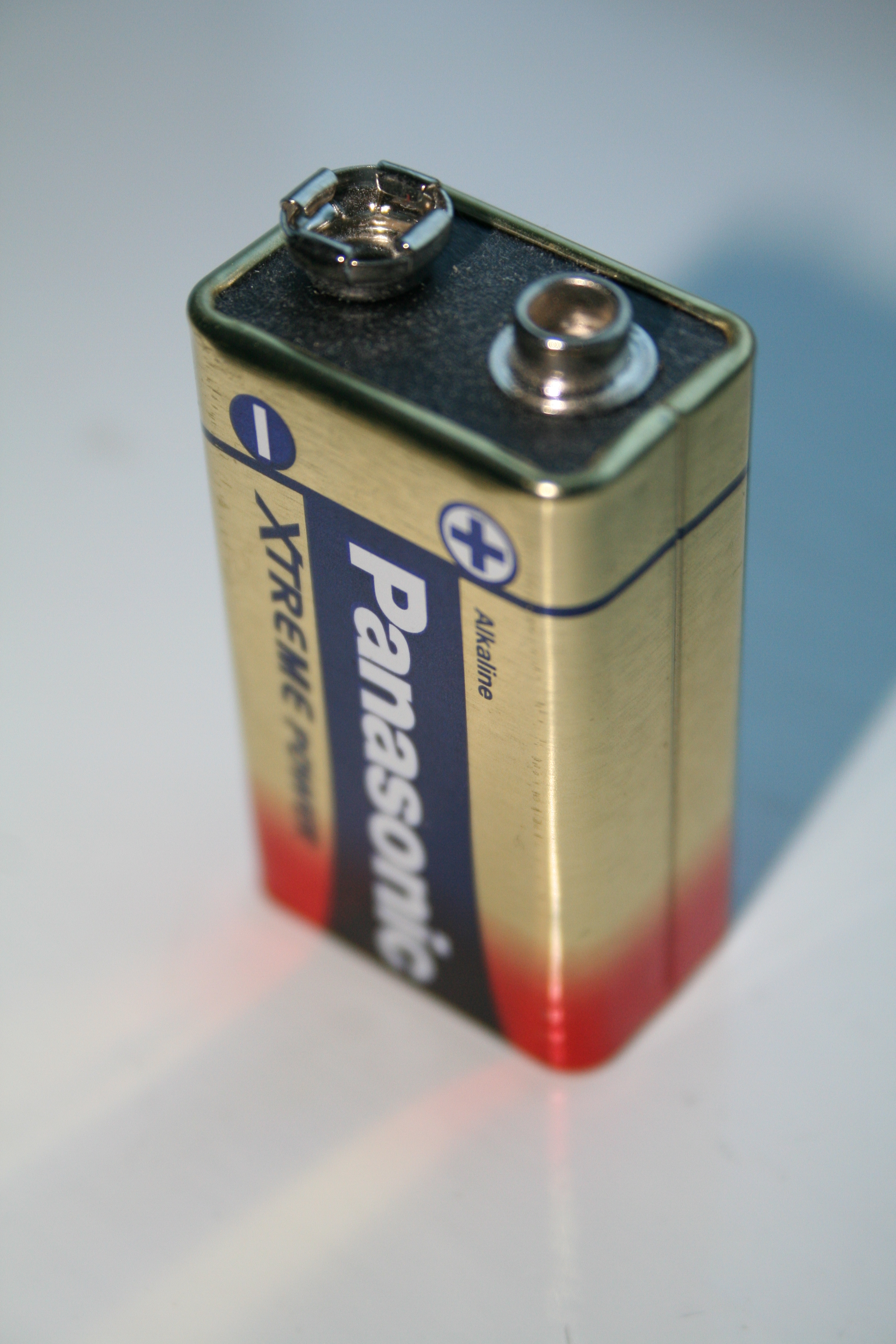 Photograph of a PP3 battery.